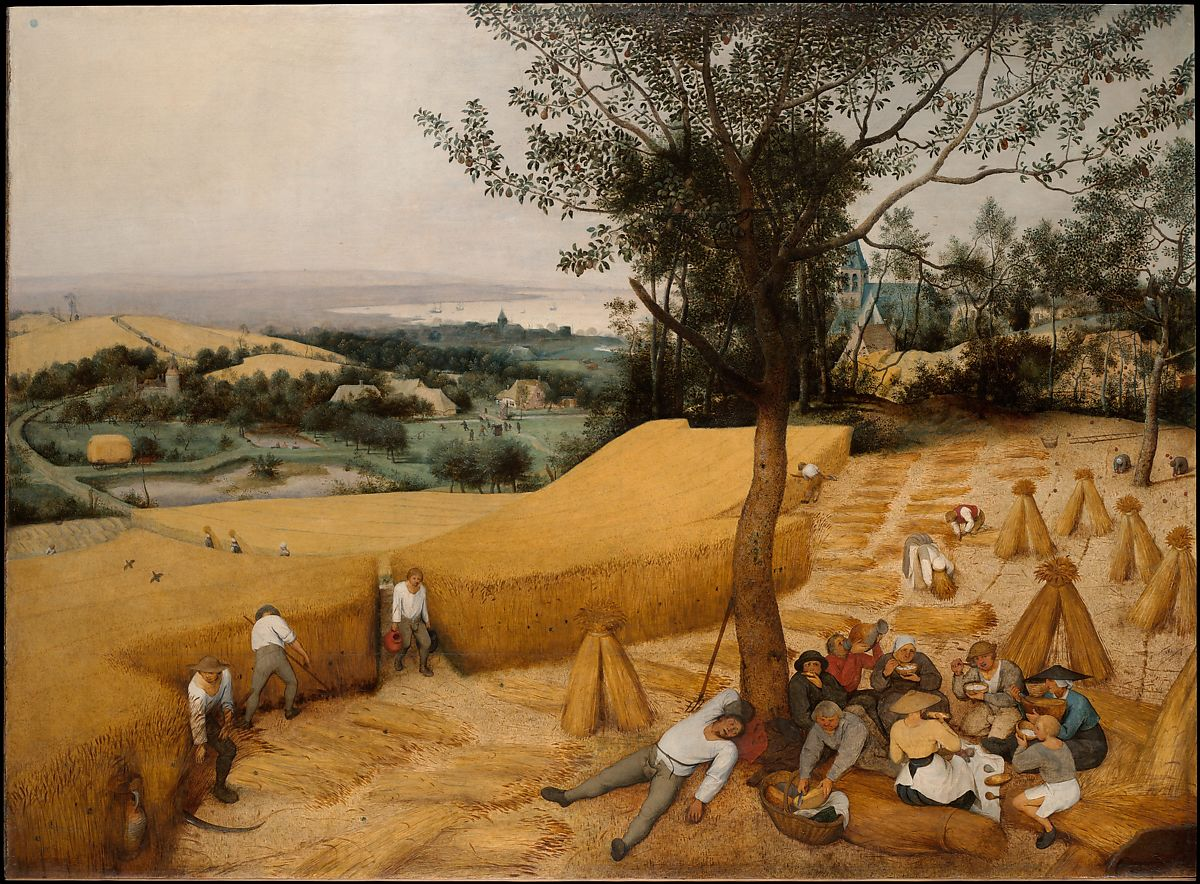 Pieter Bruegel the Elder (Netherlandish, Breda (?) ca. 1525–1569 Brussels) Date: 1565 Medium: Oil on wood Dimensions: Overall, including added strips at top, bottom, and right, 46 7/8 x 63 3/4 in. (119 x 162 cm); original painted surface 45 7/8 x 62 7/8 in. (116.5 x 159.5 cm)